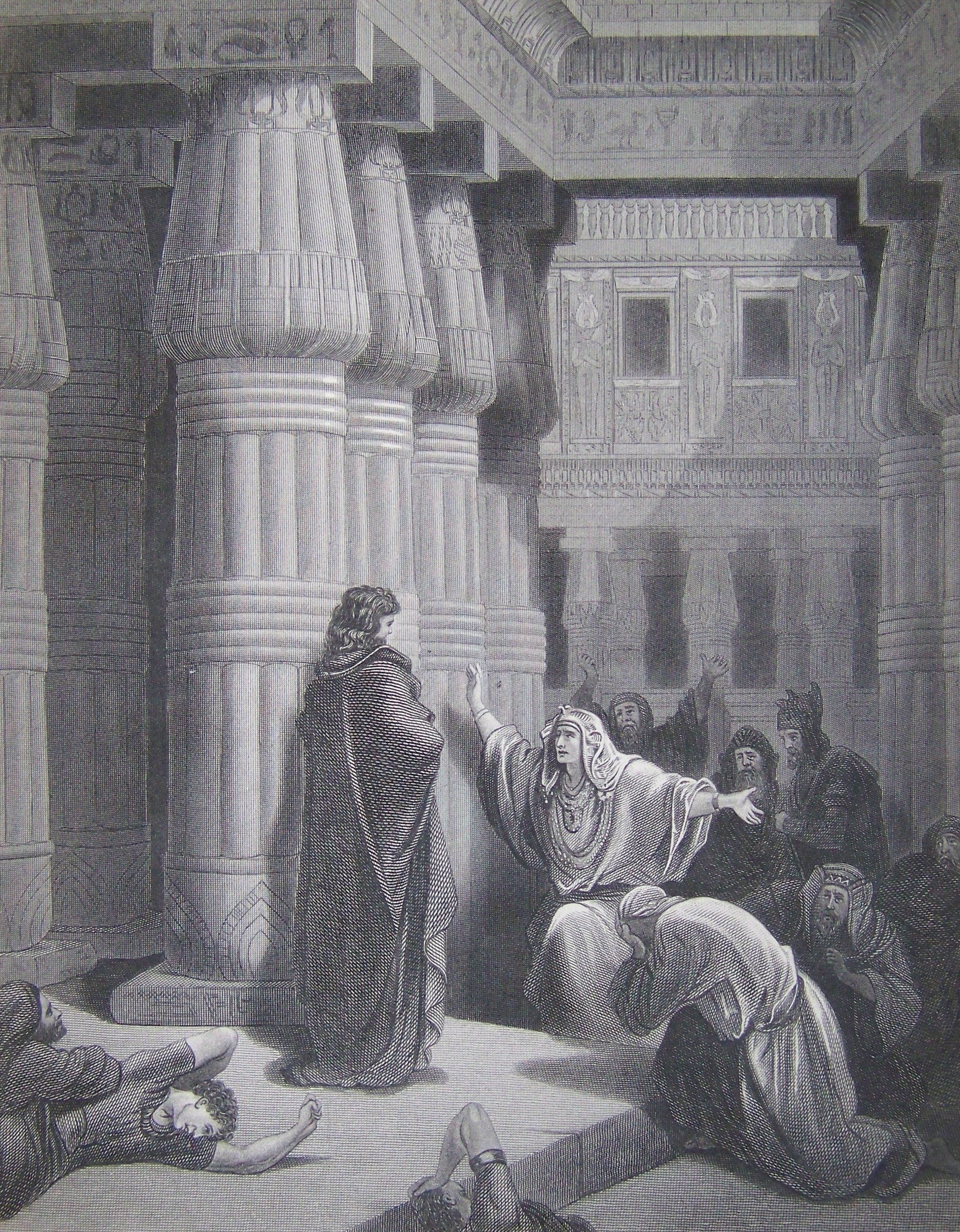 The Egyptians Urging Moses To Depart, illustration from the 1890 Holman Bible